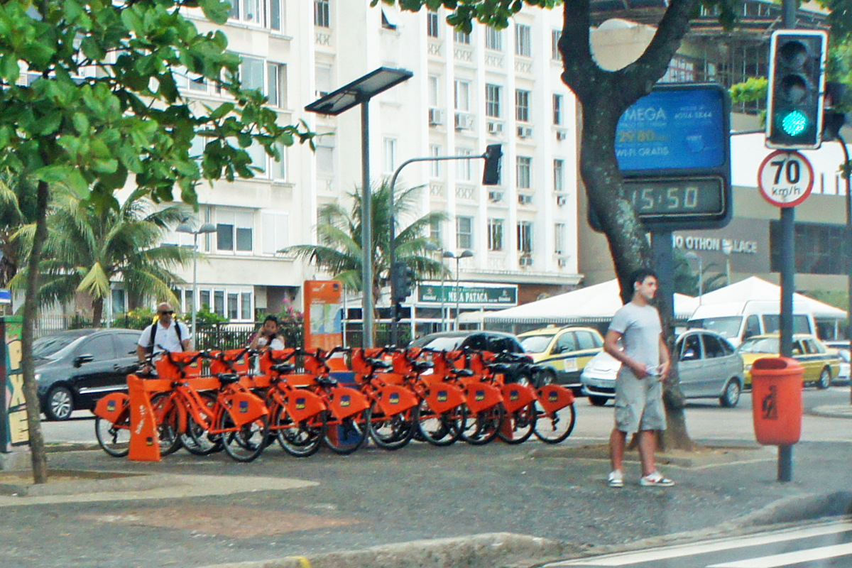 Bike Rio rental station at Avenida Atlântica, Copacabana, Rio de Janeiro, Brazil. The bike sharing rental station is powered by a solar panel (located in the middle of the station).